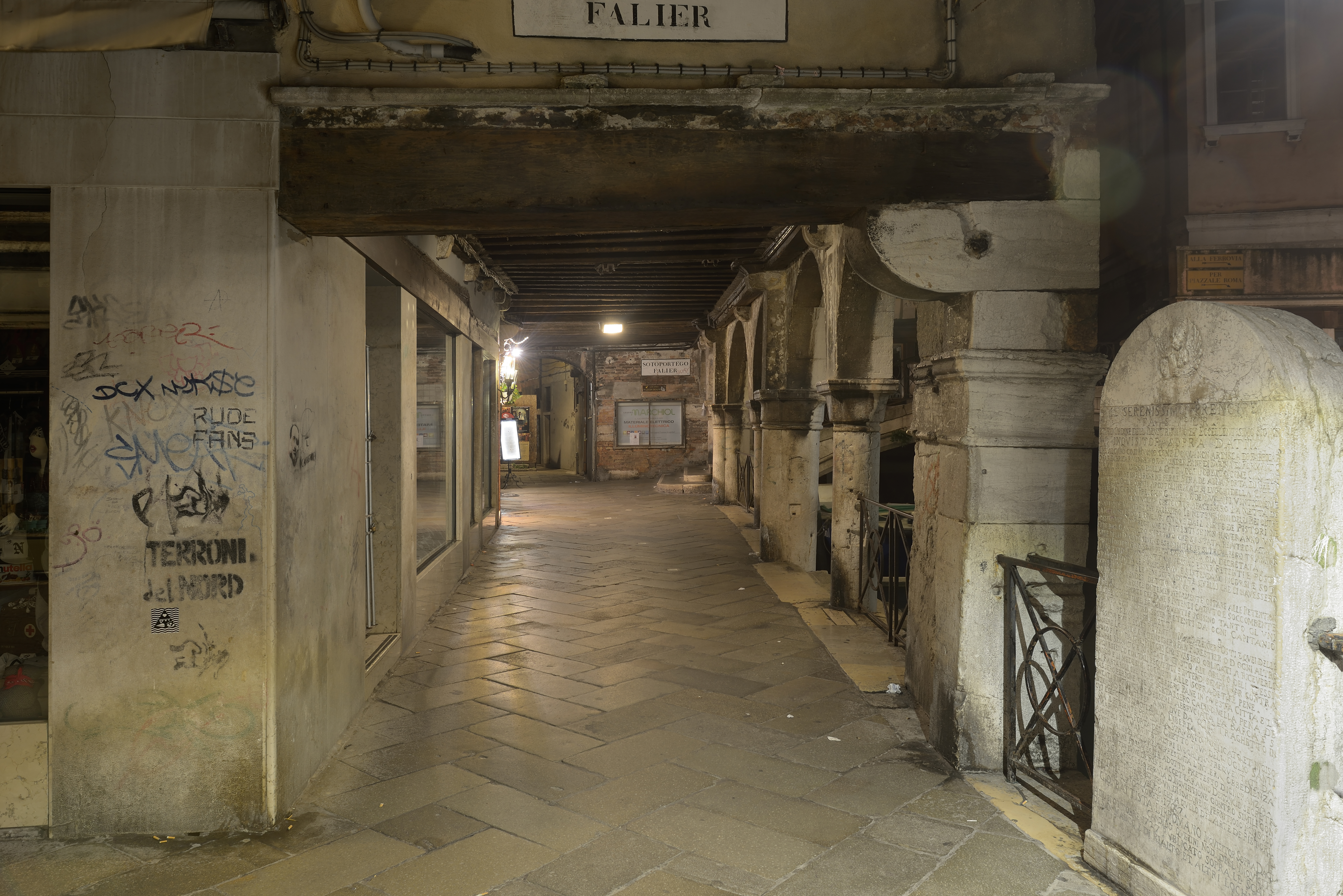 The Sotoportego Falier on the Rio Santi Apostoli canal and the Santi Apostoli bridge in Venice.